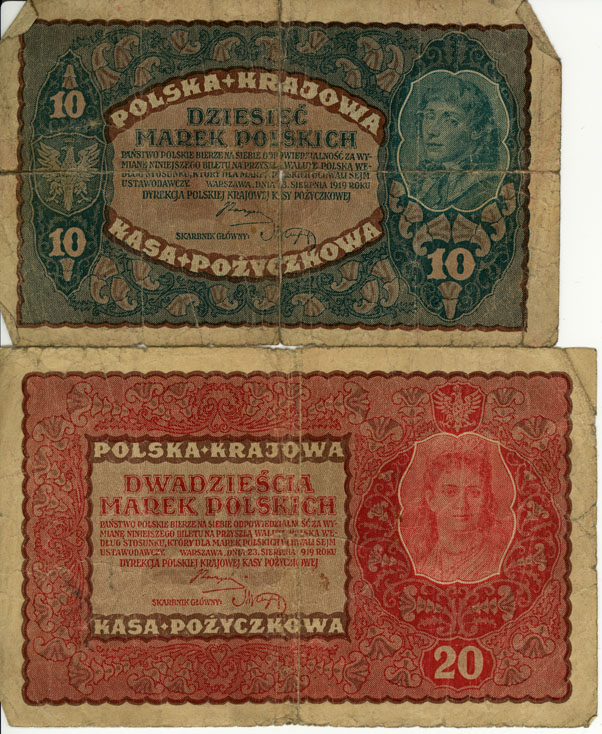 10 and 20 Polish Marks from 1919